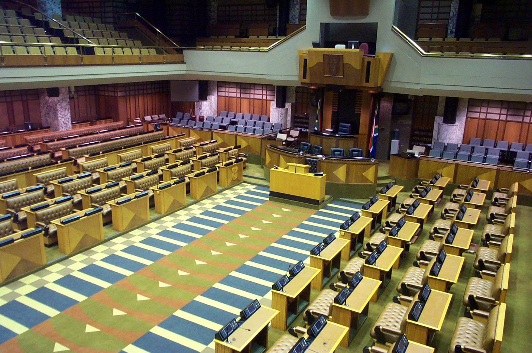 The chamber of the National Assembly of South Africa.